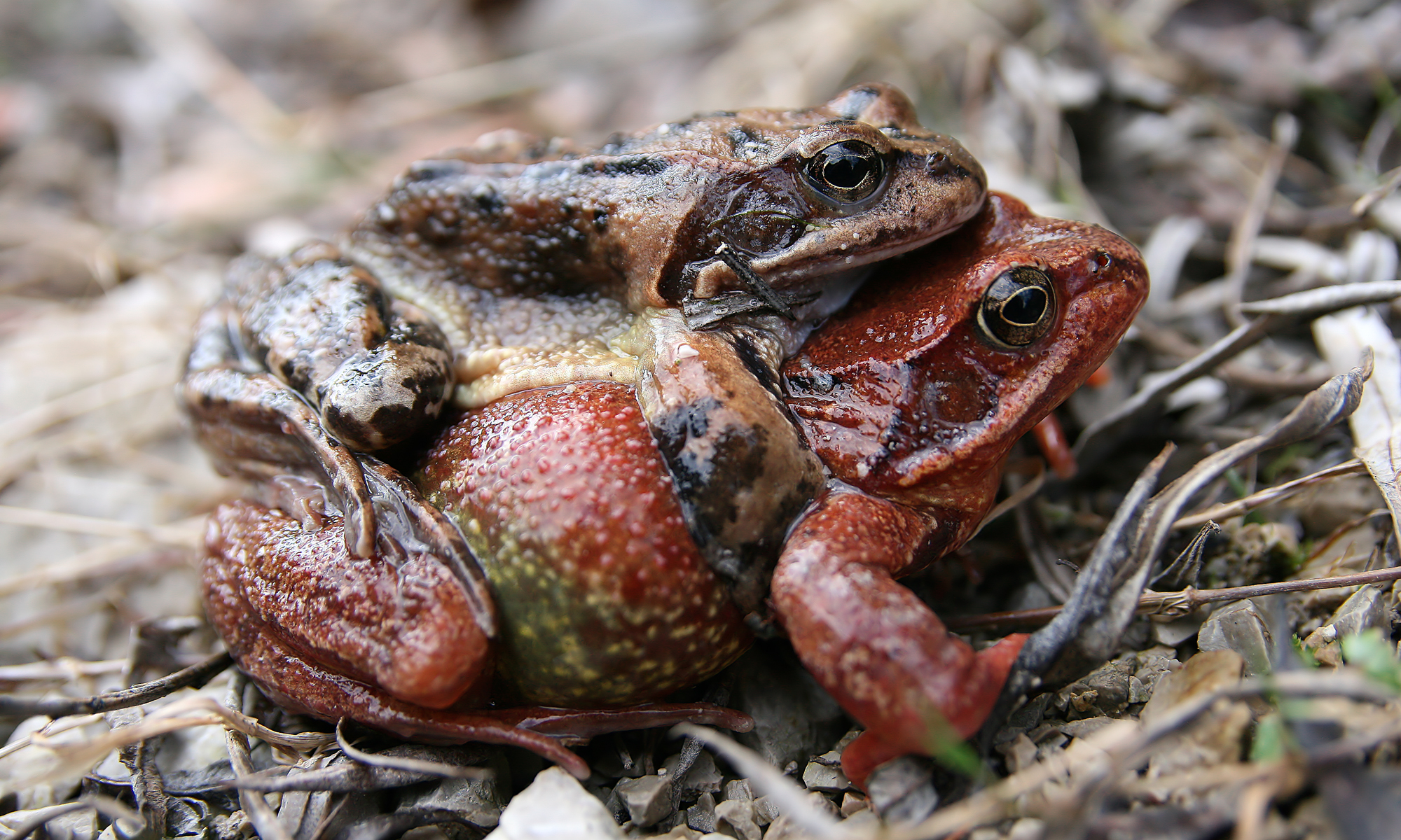 Common Frogs (Rana temporaria) also known as European Common Frogs.